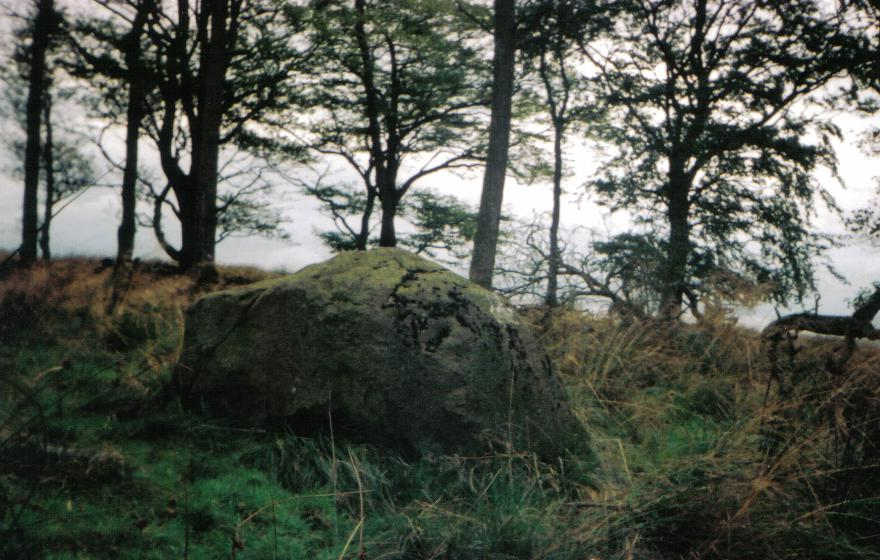 The Rocking or Druidical Stone on Cuff Hill on the old Hessilhead Castle lands near Beith in North Ayrshire